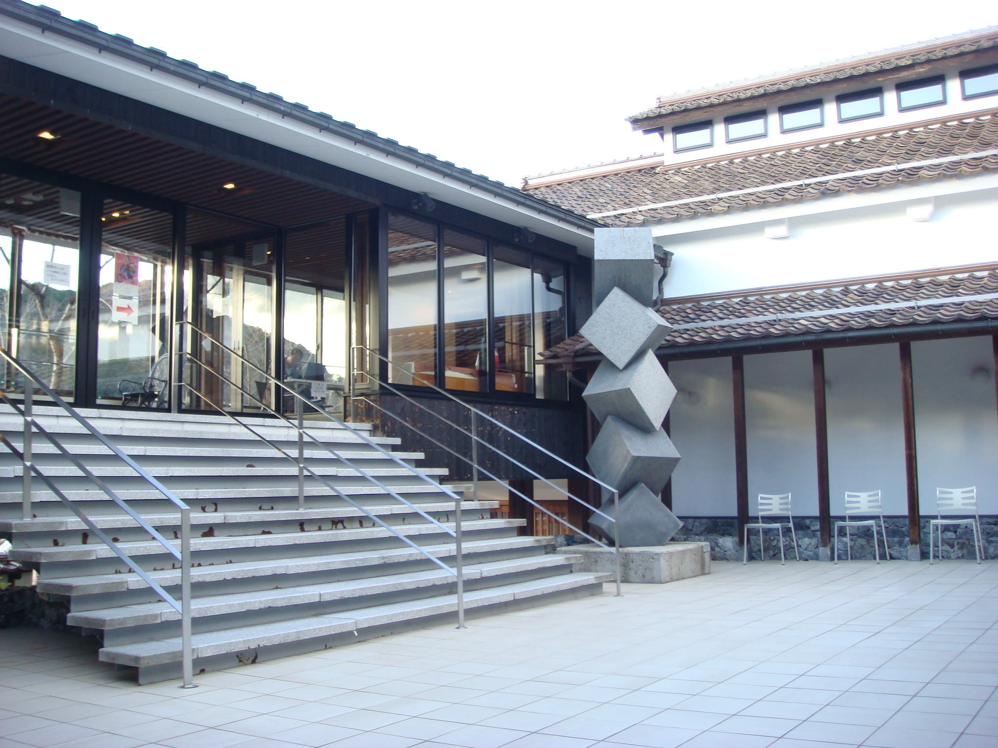 HISHIO – Centre for Cultural Exchange